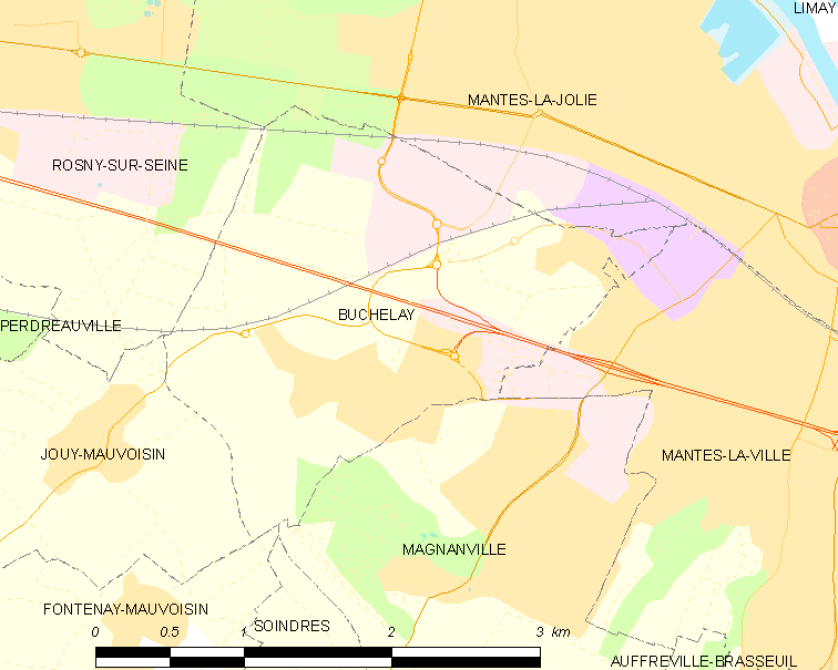 Map of French municipality Buchelay